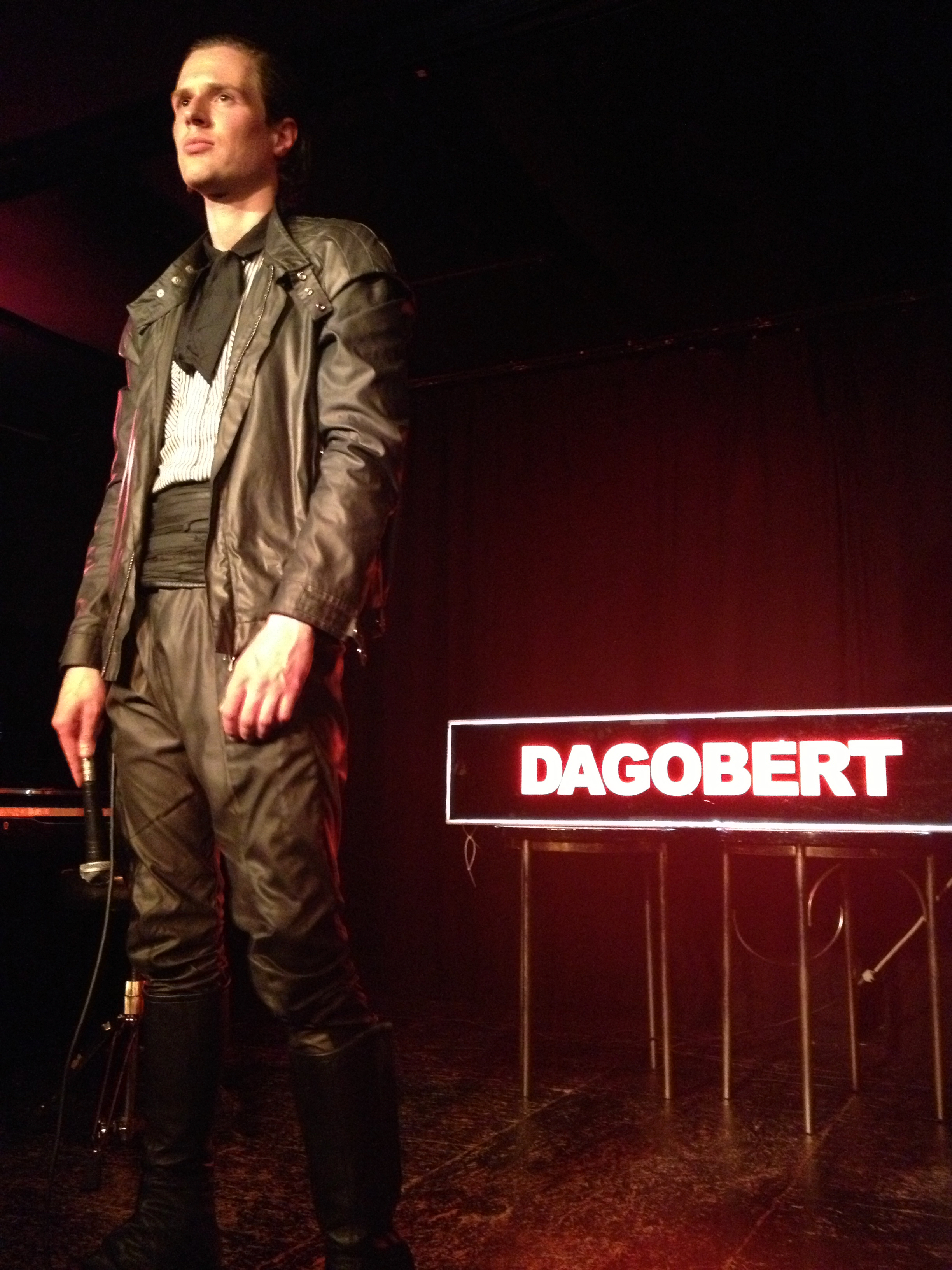 Singer Dagobert at a gig in Munich in 2013